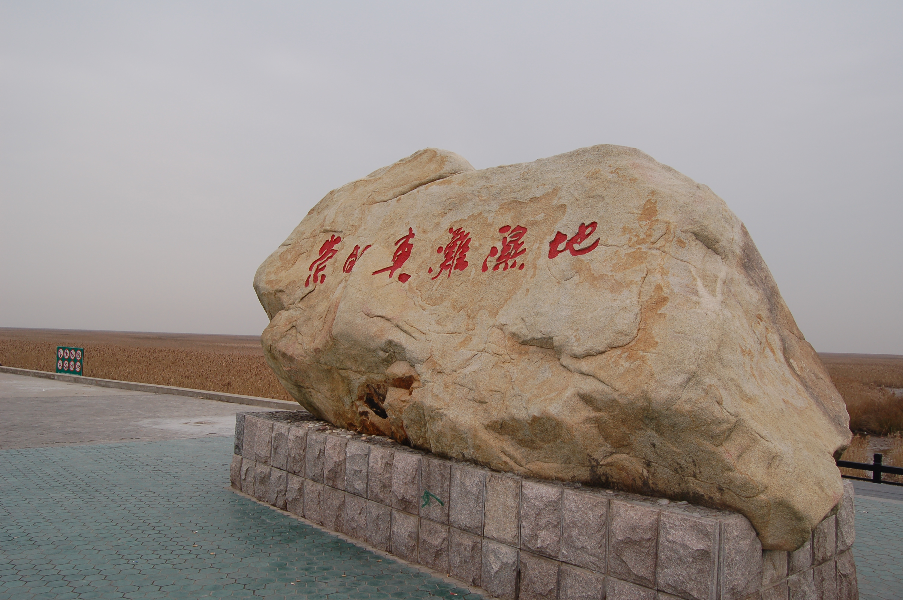 DongTan